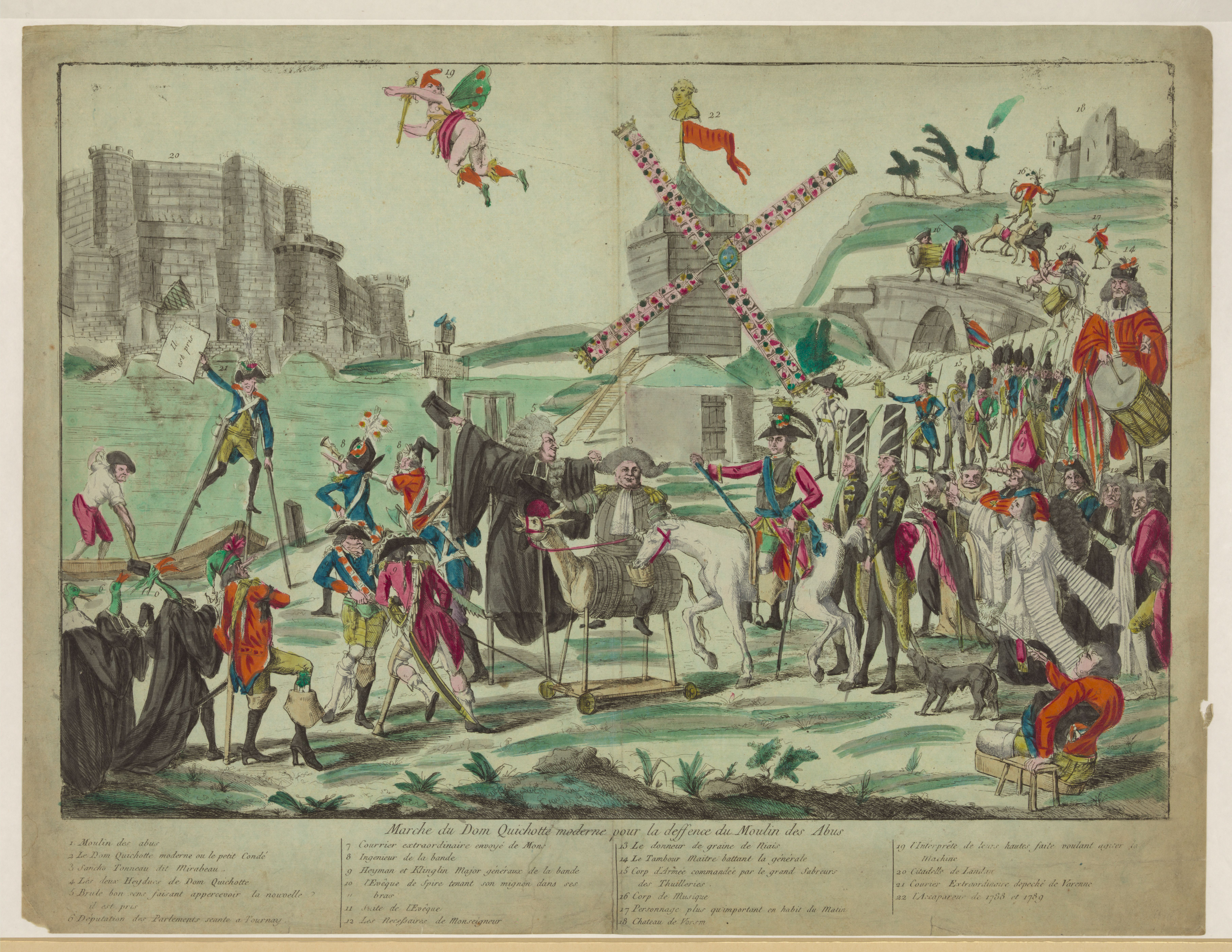 Caricature of Louis Joseph de Bourbon (1736-1818) and André Boniface Louis Riquetti de Mirabeau (Mirabeau-Tonneau) (1754-1795). Library of Congress description: "Print shows the Prince de Condé as Don Quixote on a white horse and vicomte de Mirabeau (Mirabeau Tonneau) as Sancho Panza riding on a barrel-shaped ass on wheels, surrounded by a ragged group of counterrevolutionaries forming Condé's army, riding to the defence of the mill of abuse, a windmill situated in the center background, topped with a bust of Louis XVI. The mill is propelled by gusts of flatulence issuing from an allegorical Fame without trumpet, dressed as a jester." Caption: "Marche du Dom Quichotte moderne pour la deffence du Moulin des Abus." ("Don Quixote's modern march in defence of the windmill of abuses.")